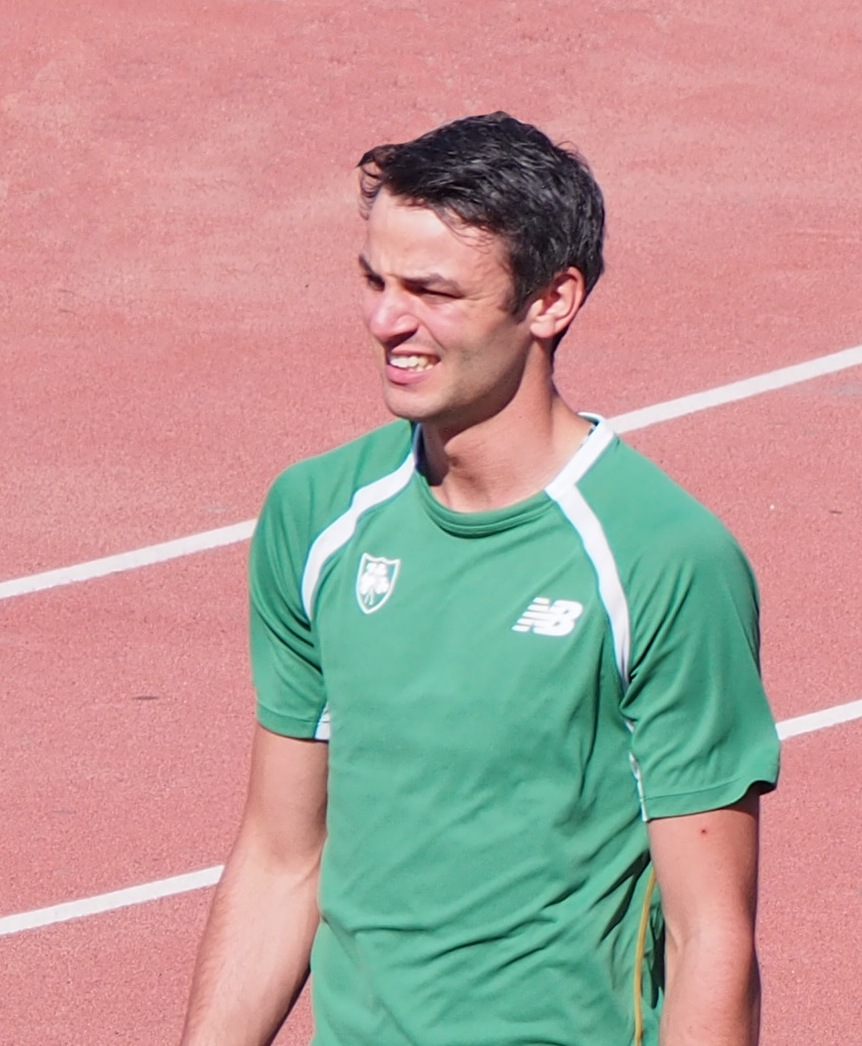 Thomas Barr during the 2015 European Teams Championship First League.